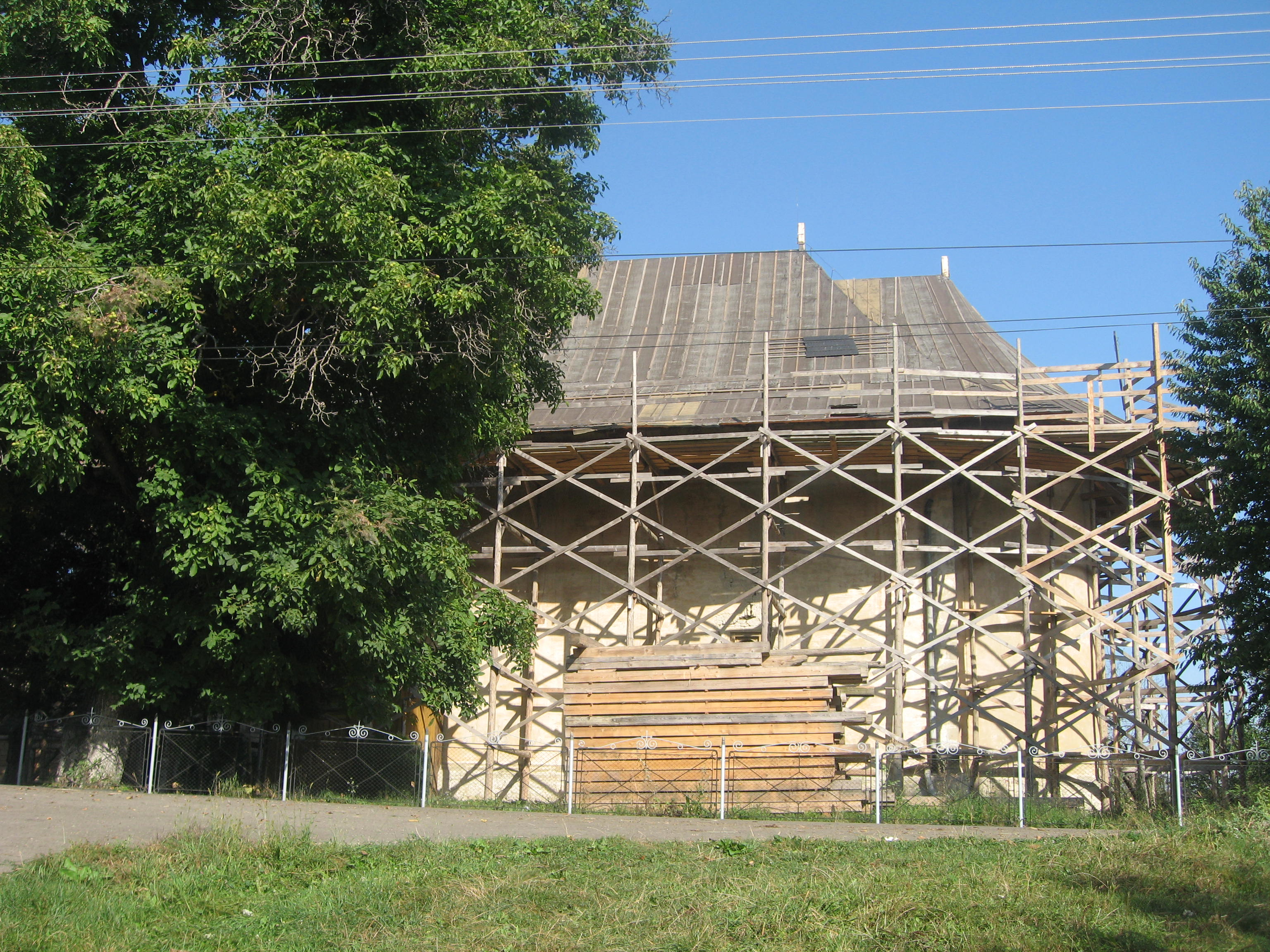 Biserica Tăierea Capului Sfântului Ioan Botezătorul din Reuseni 01